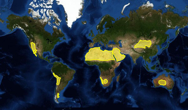 World largest deserts Desers included: Sahara Arabian Syrian Kalahari Namib Gobi Australian West North American Patagonian Atacama